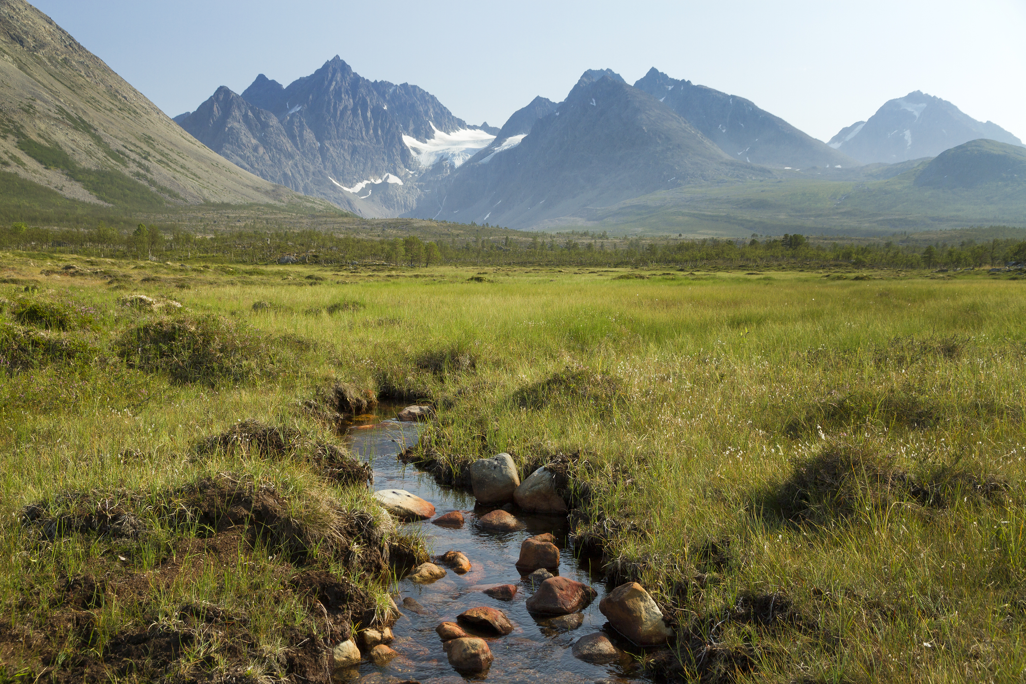 A bog landscape towards Lenangstindane (Store Lenangstinden, 1,625 m, being the highest peak in the northern Lyngen peninsula) and Jægervasstindane from the northwest at Sørlenangsbotn in Lyngen, Troms, Norway in 2014 August.